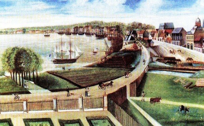 New Orleans in 1803. Lower portion of painting "Under My Wings Every Thing Prospers" by New Orleans artist J. L. Bouqueto de Woiseri, to celebrate his pleasure with the Louisiana Purchase and his expectation that economic prosperity would result under U.S. administration. View of the city's looking upriver from the riverfront of the Marigny plantation (not yet subdivided for urban development); vantage point is probably about the river end of Marigny Street is now or slightly down river. Seen are the Marigny sawmill canal (along what is now Elysian Fields Avenue), various sailing ships in the Mississippi, and the riverfront buildings of what is now called the French Quarter extending up around the curve of the river. Old rounded cupolas of St. Louis Cathedral seen in distance. Pedestrian and horse & buggy traffic seen on the leveefront river road.